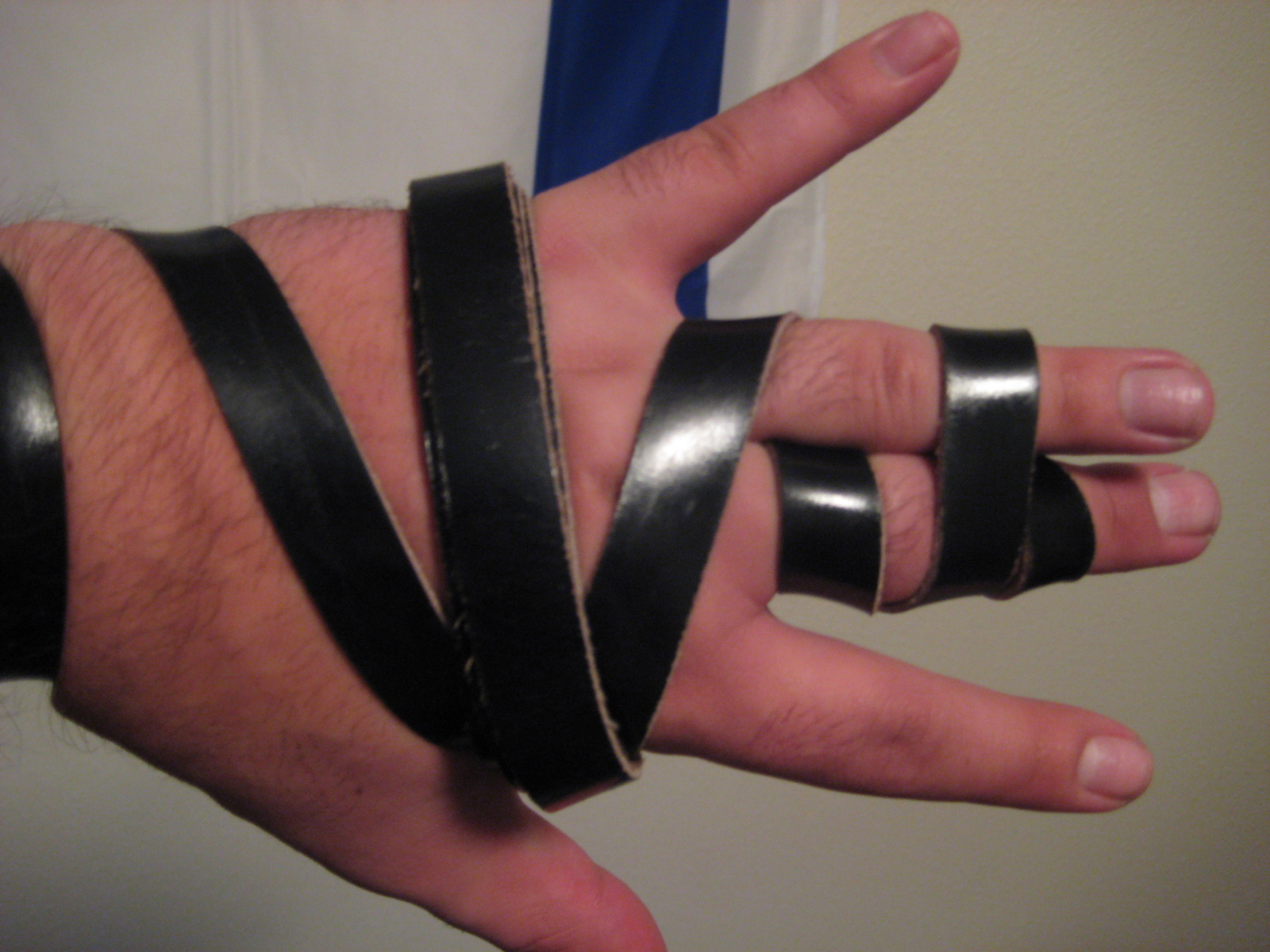 Tefillin shel yad on the left hand, as posted on Wikipedia under the Creative Commons Attribution 3.0 License.